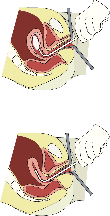 This is a first draft, diagram, without labels, of the vacuum aspiration abortion procedure. I used Image:SpirellaCorsetry02.gif as tracing reference for the hands and Image:Illu repdt female.jpg as tracing reference for the internal organs and body outline. The references I used for the procedure itself come from two sources: Jones, R. E. and Lopez, K. H. Human Reproductive Biology. p. 425; and Decherney, A. H. and Pernoll, M. L. Current Obstetric & Gynecologic Diagnosis & Treatment. p. 684. This image is uploaded for discussion purposed on the English Wikipedia, and pending comments and discussion will likely be completed in SVG format.